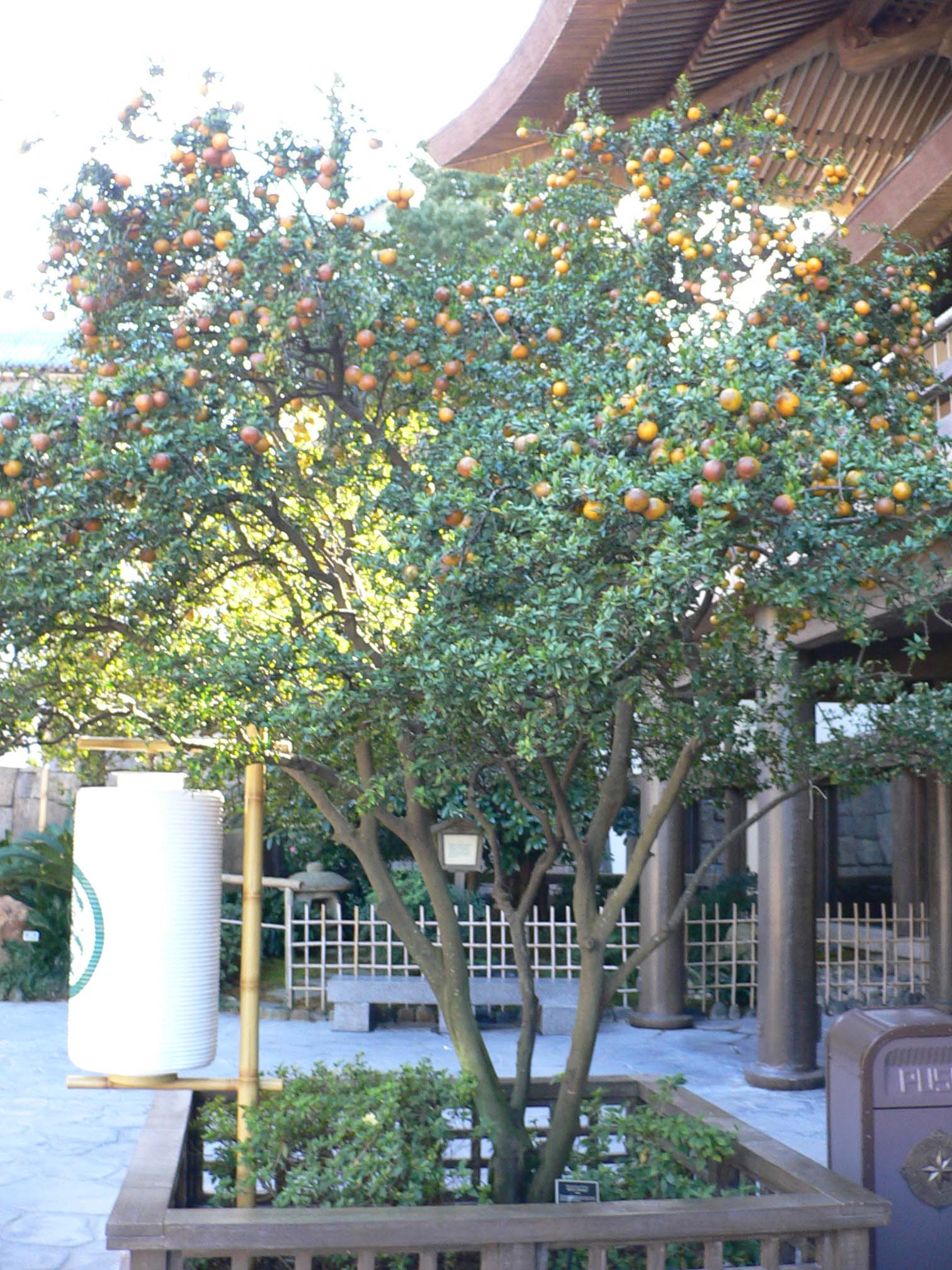 Daidai in Epcot.